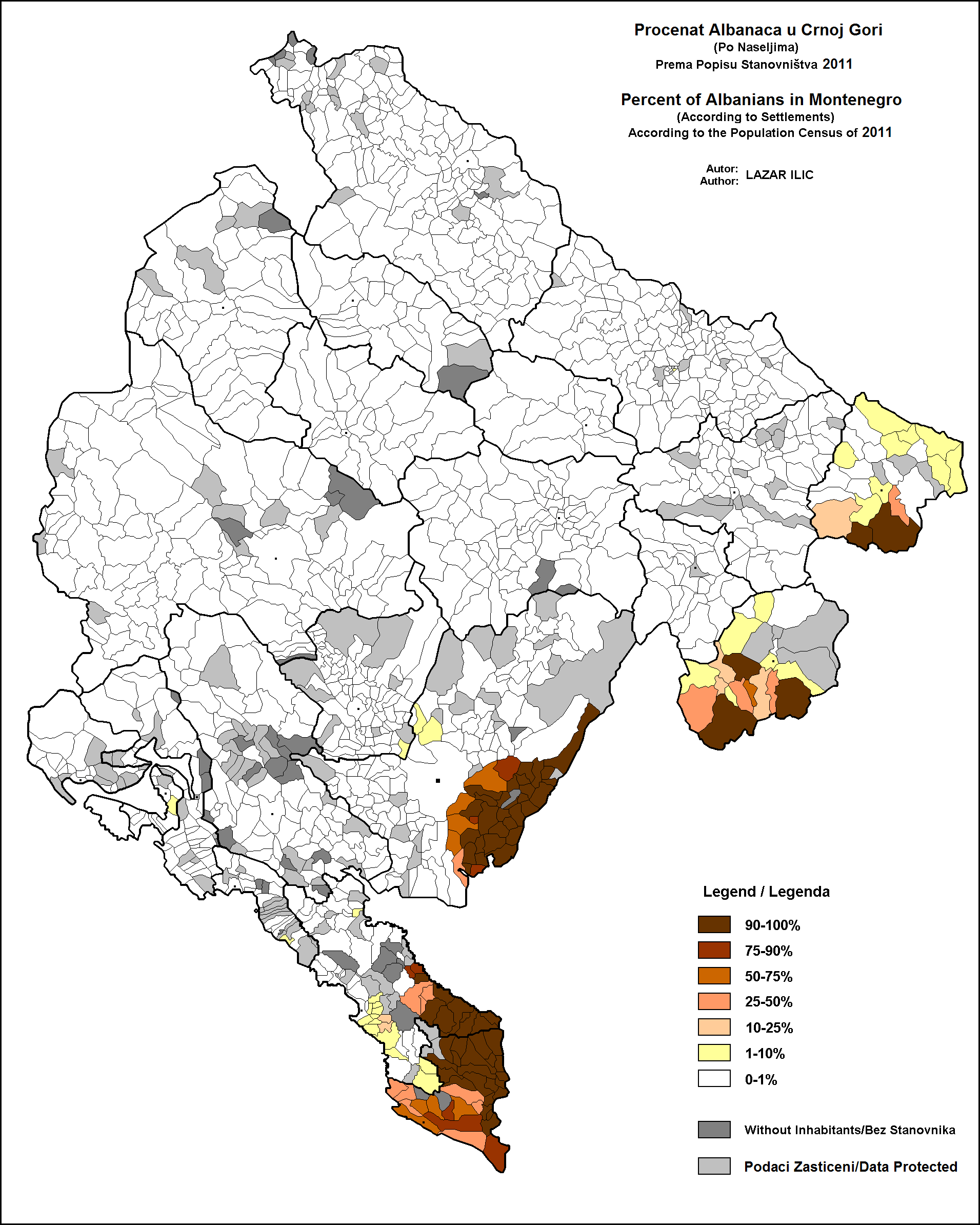 This is a map of settlements in Montenegro, showing the percent of Albanian language (mother tongue) according to the 2011 population census.